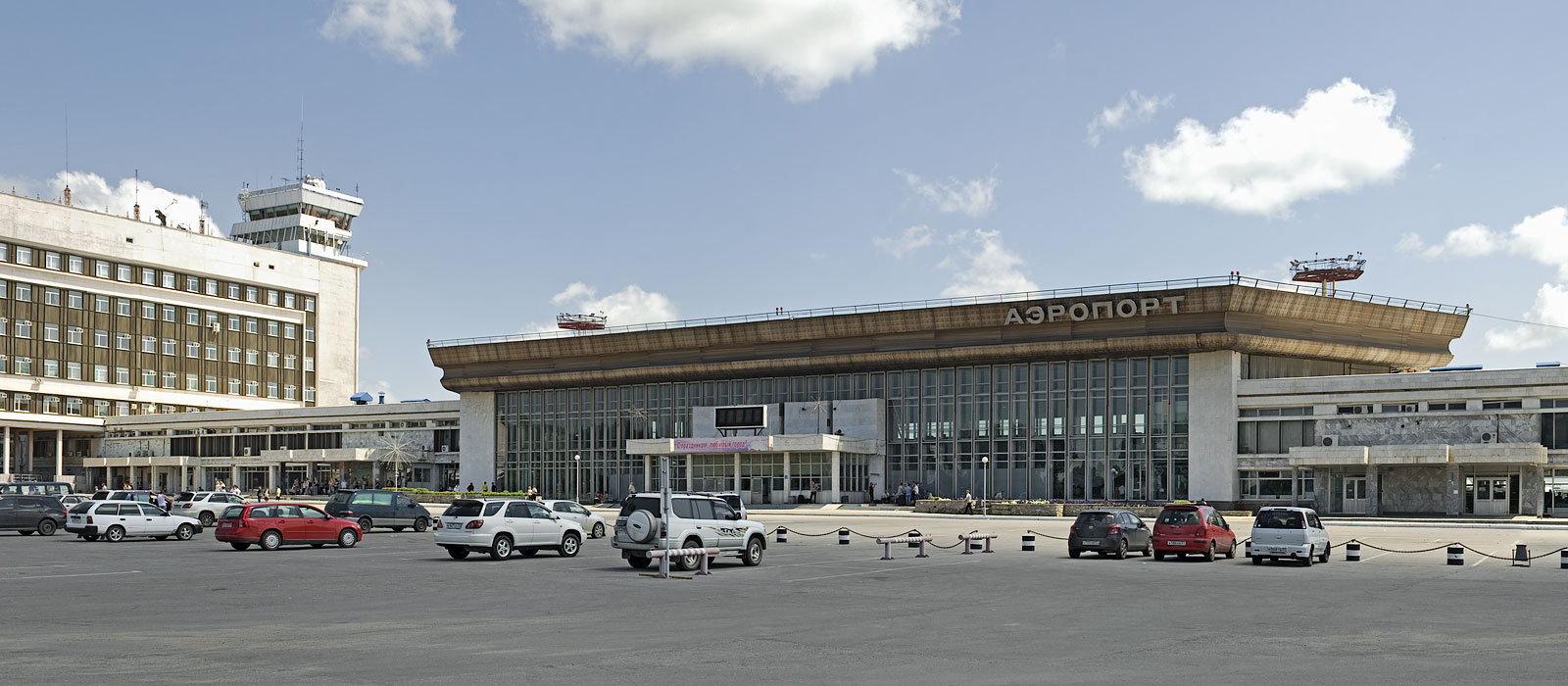 Khabarovsk airport ("Noviy")